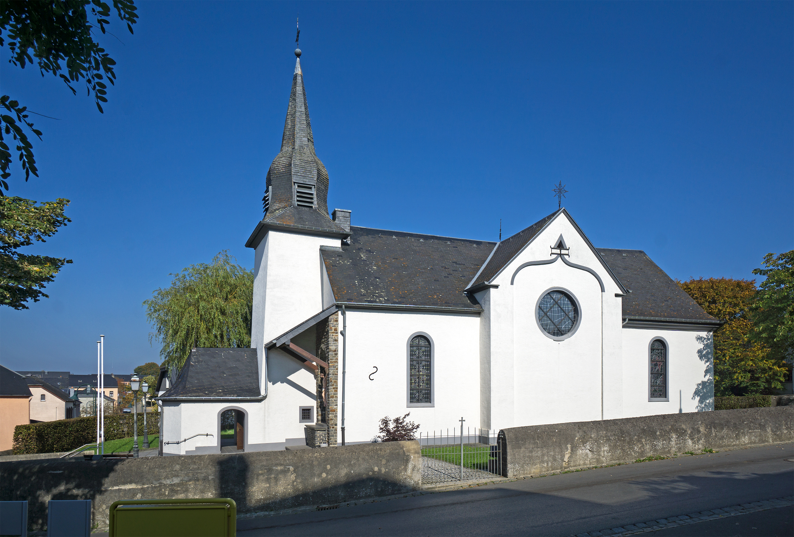 Church of Hupperdange